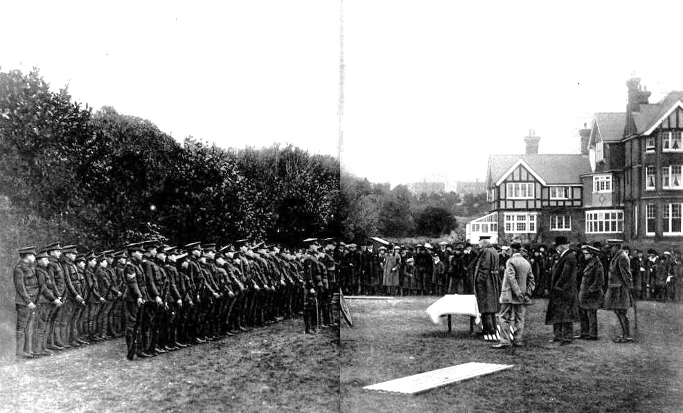 General Lord Cheylesmore congratulates St Scyprian's School on winning the Imperial Challenge Shield